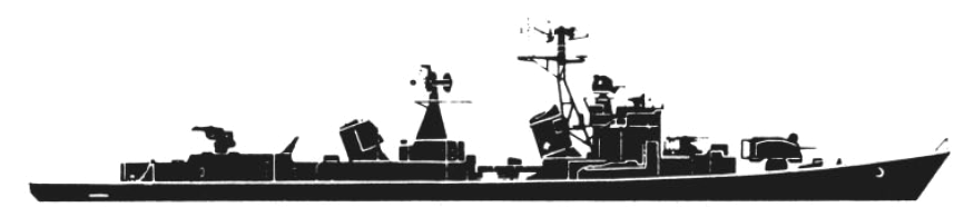 Profile of a Soviet Kotlin-class (Project 56 Spokoynyy) guided missile destroyer.